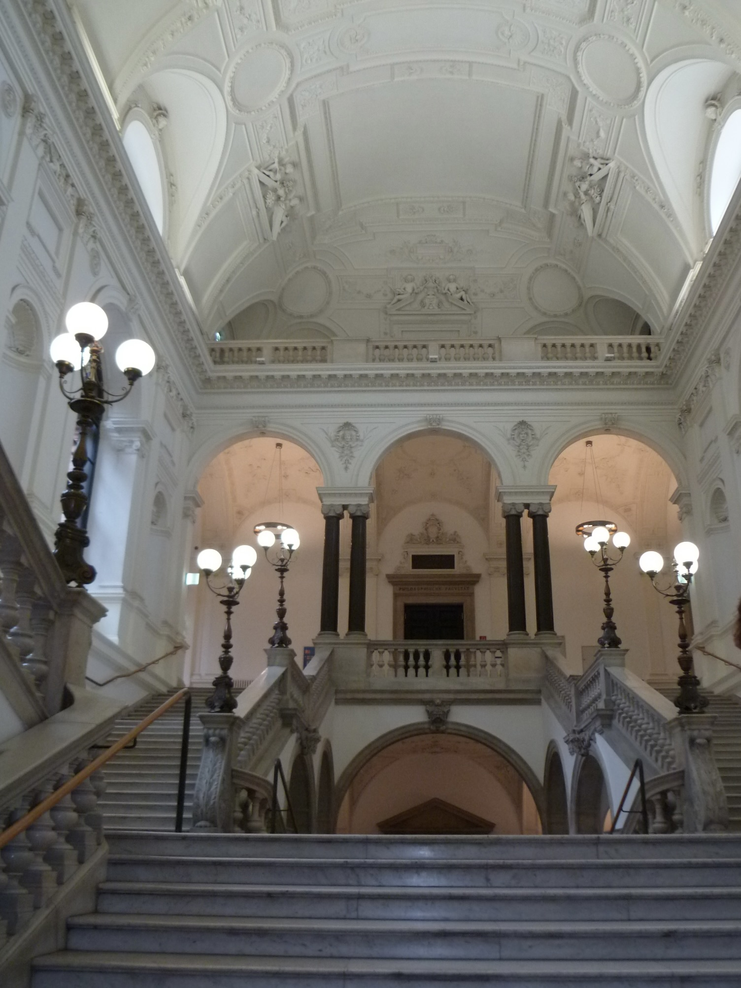 Stairs at the University of Vienna (Philosophenstiege)